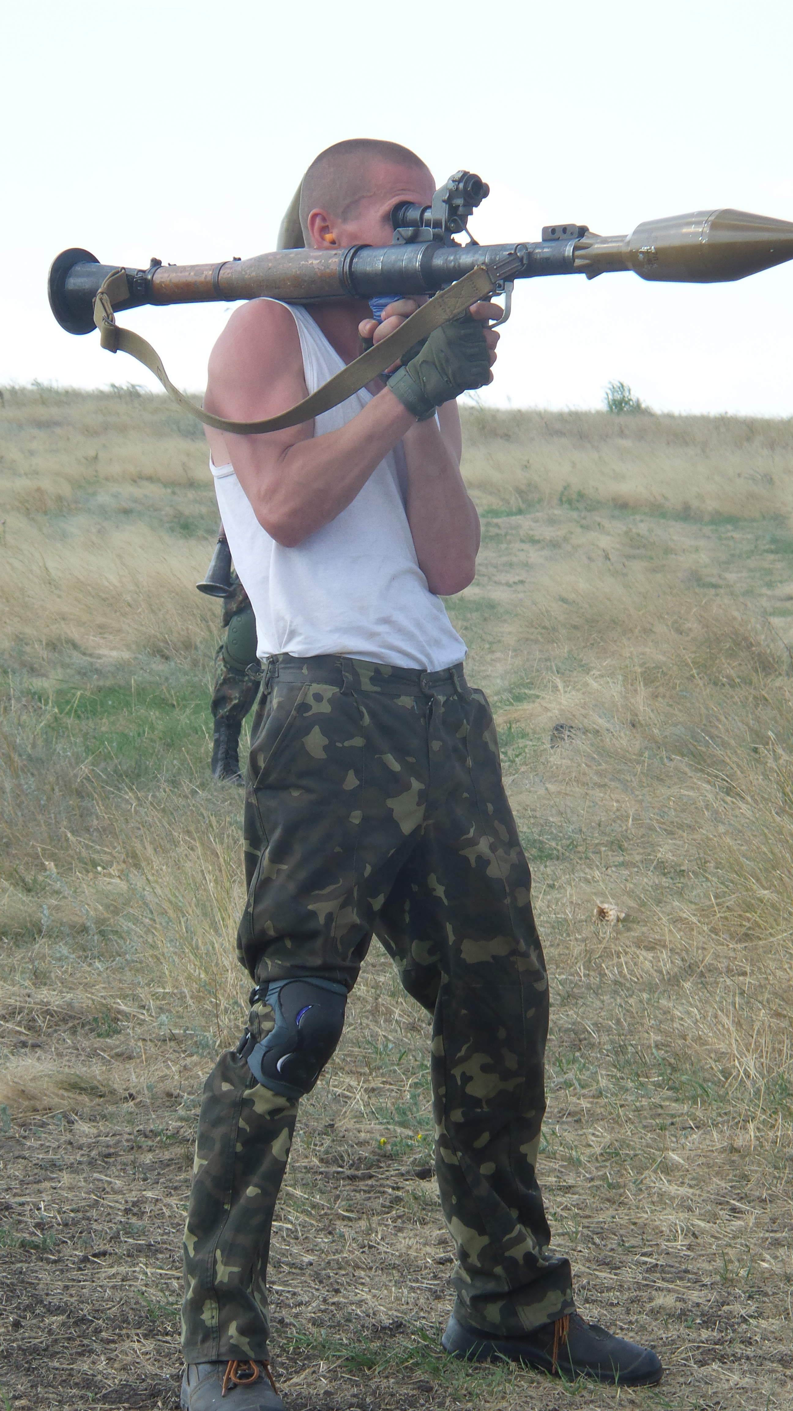 Aidar Battalion. Lugansk region, Ukraine.